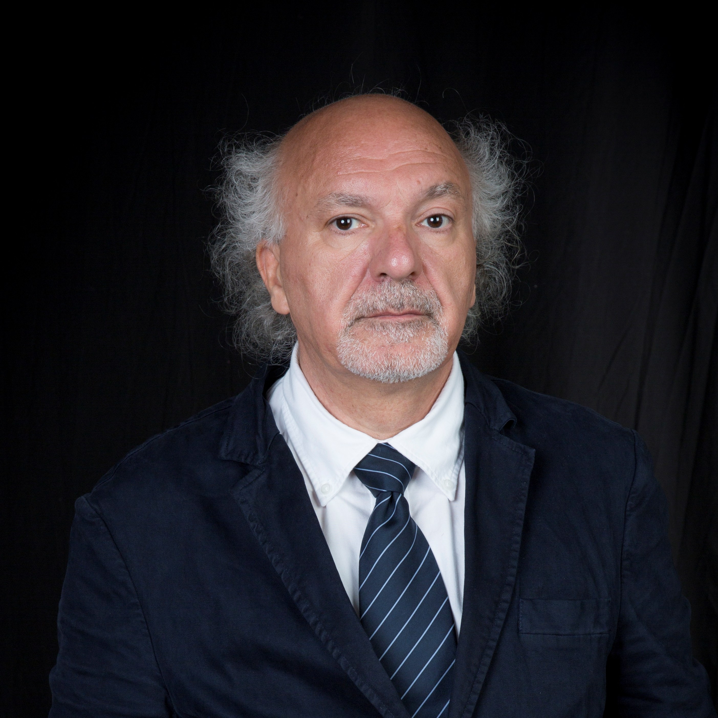 Gerardo Tristano